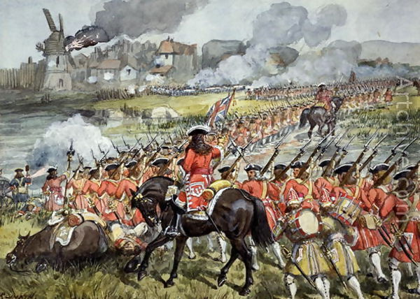 The 16th Regiment of Foot at Blenheim, 13th August 1704, c.1900. Water color on paper.